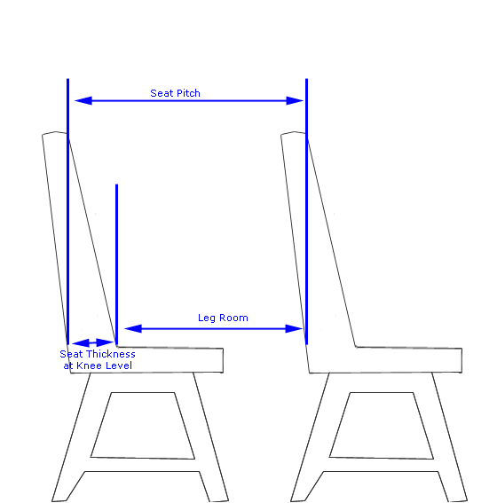 "Side view showing the difference between 'Seat Pitch' & 'Leg Room'"